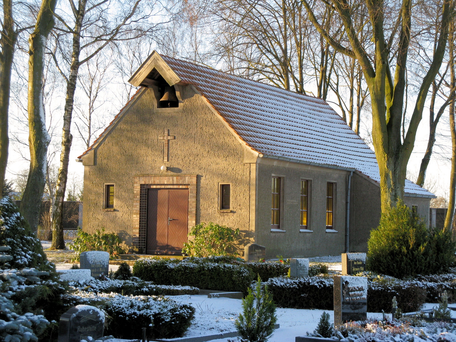 Chapel in Holthusen, Mecklenburg-Vorpommern, Germany